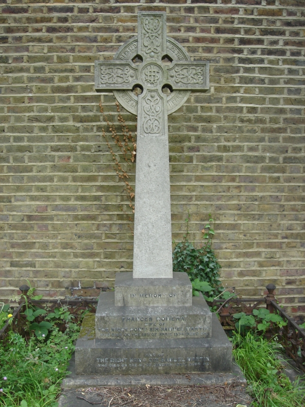 Grave of Samuel Martin (politician), Brompton Cemetery.